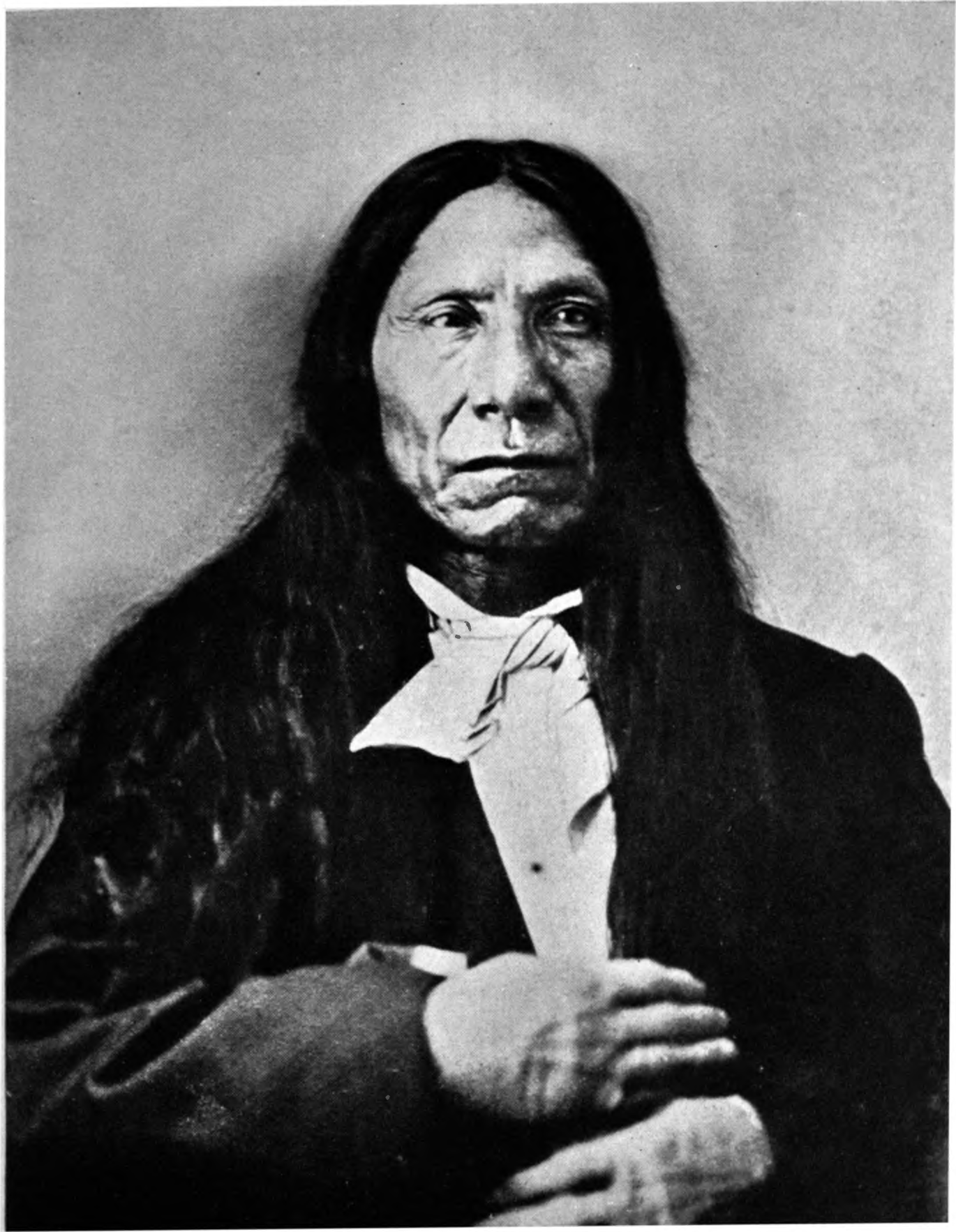 Illustration from The Indian Dispossessed by Seth K. Humphrey, 1906.